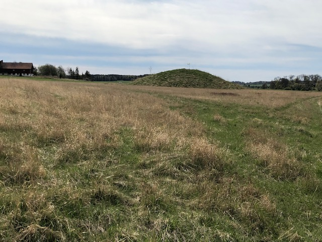 Tumulus of Blot Sven according to legendTemplate:Says who? Citation needed